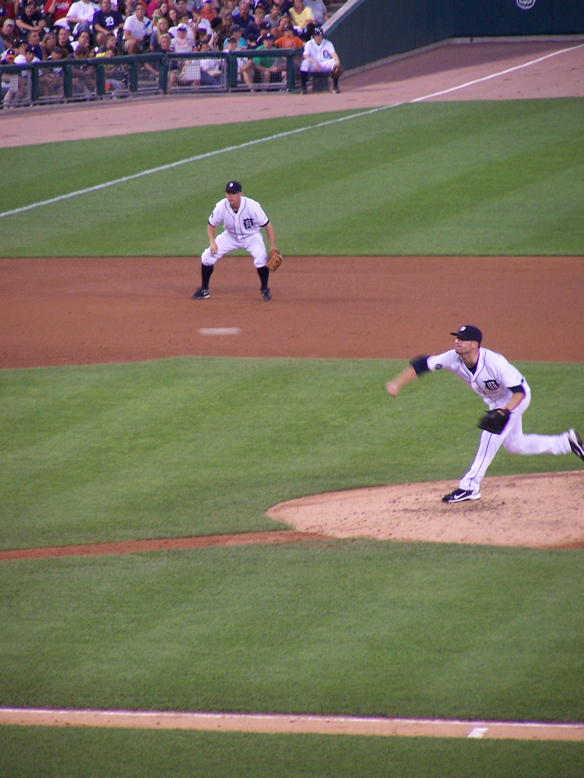 pitching in his second career game, first career strikeout